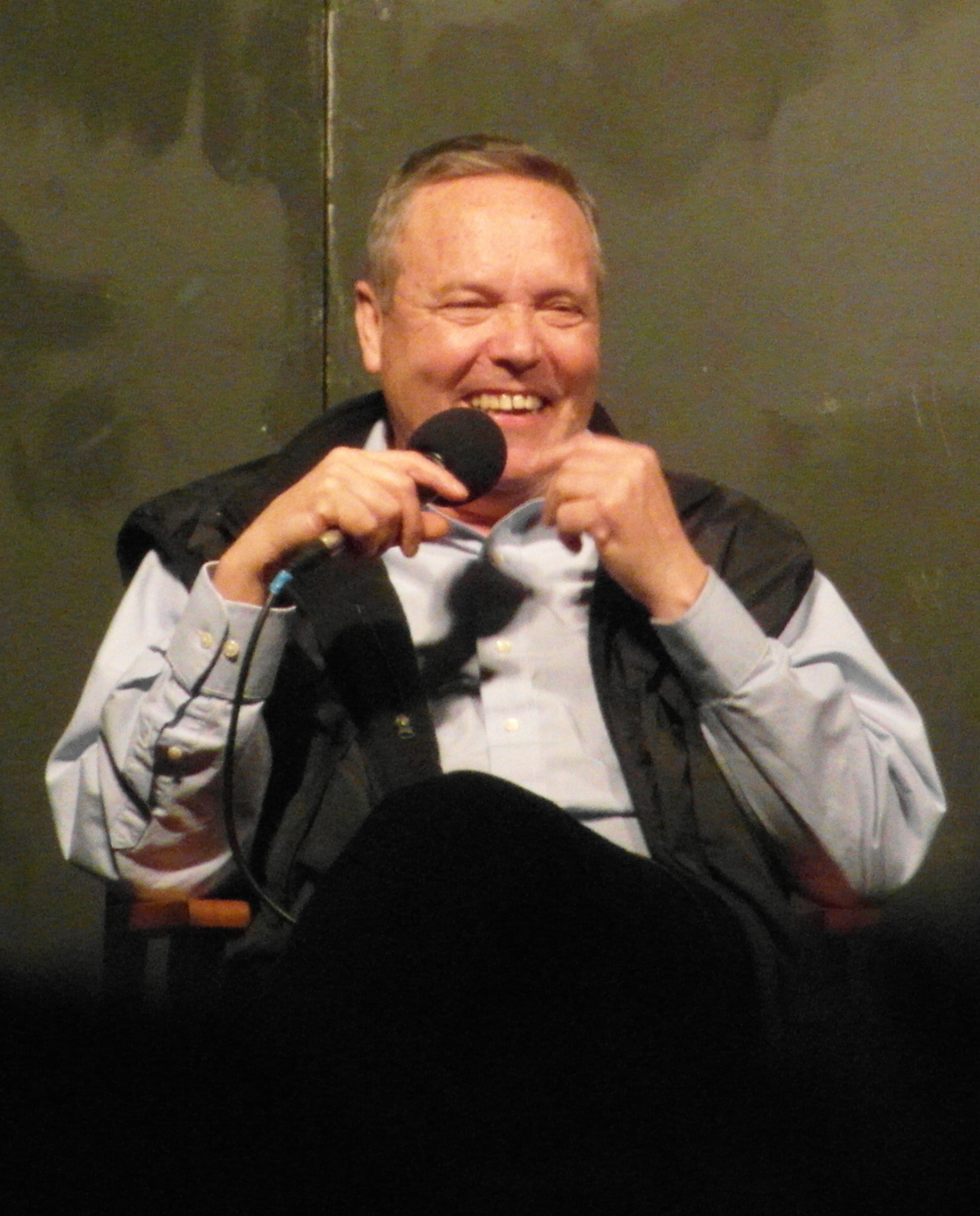 Tom McBeath on stage answering questions at Chevron 7.8 on 26th Feb 2012.